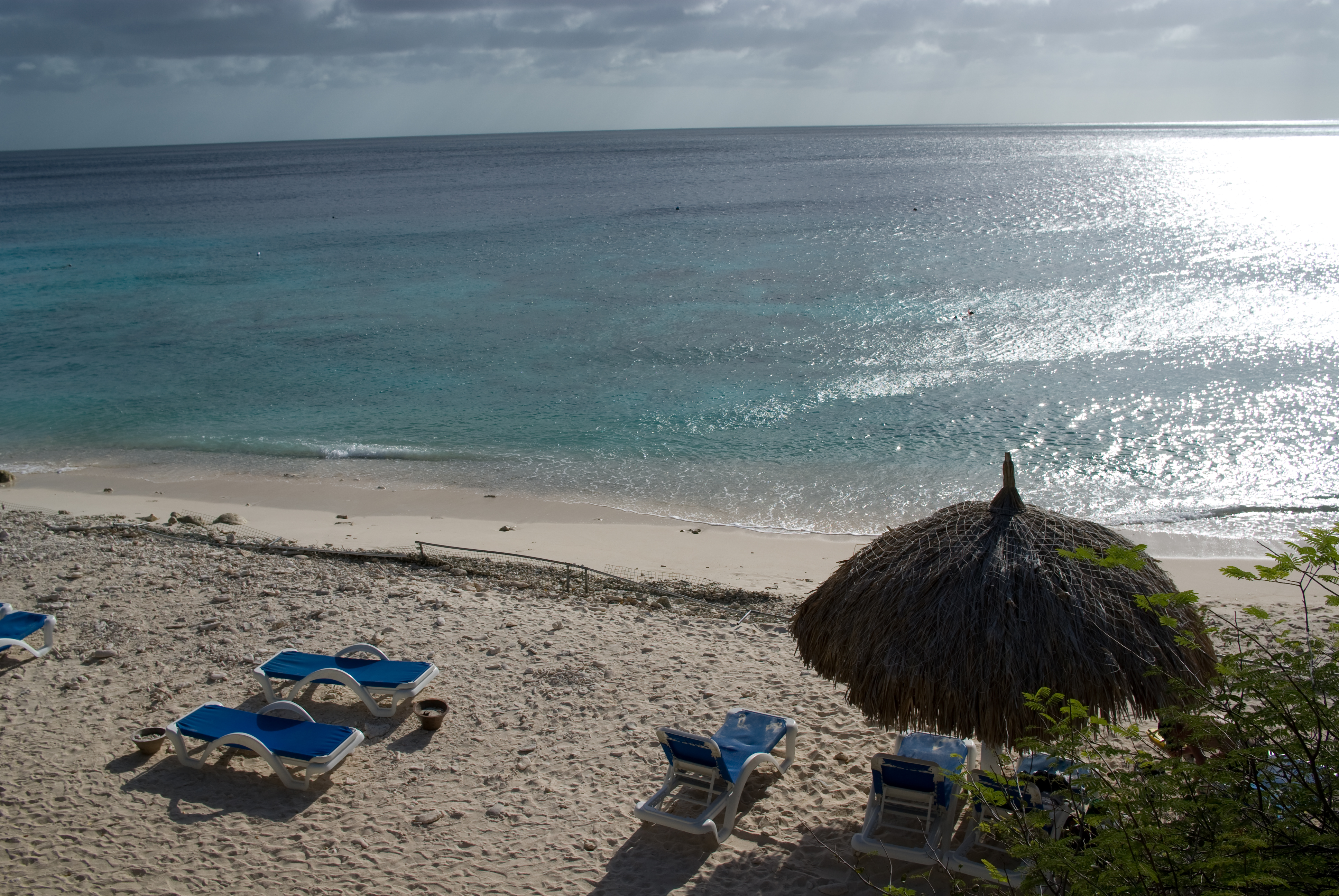 Lodge Kura Hulanda is built on the cliffside directly over Playa Kalki, one of the best beaches on Curaçao for snorkeling and diving because of the white coral reefs shortly off shore. Unfortunately, none of us ever got around to snorkeling, let alone diving, but we enjoyed the beach anyway.